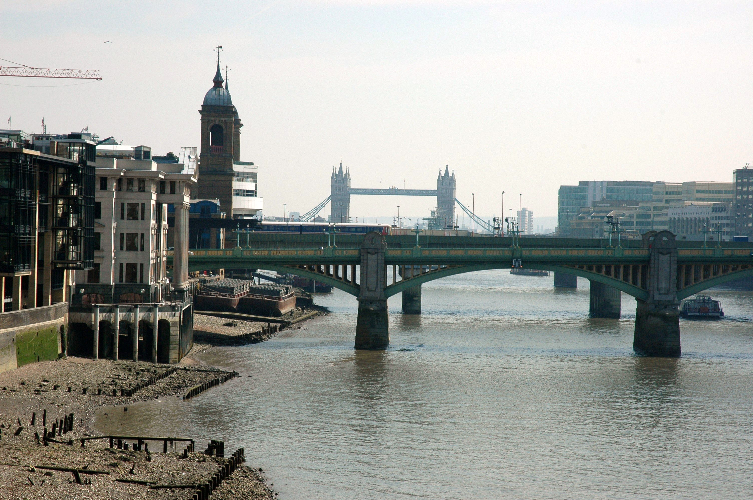 Londres - Pont de Southwark